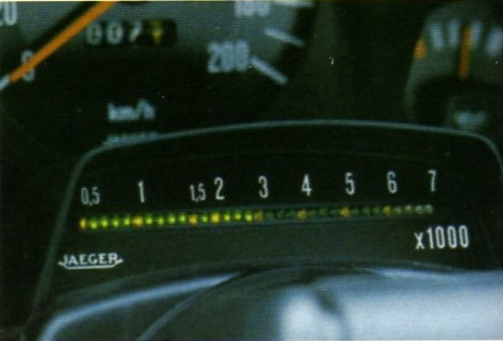 Dashboard of the Talbot Horizon.